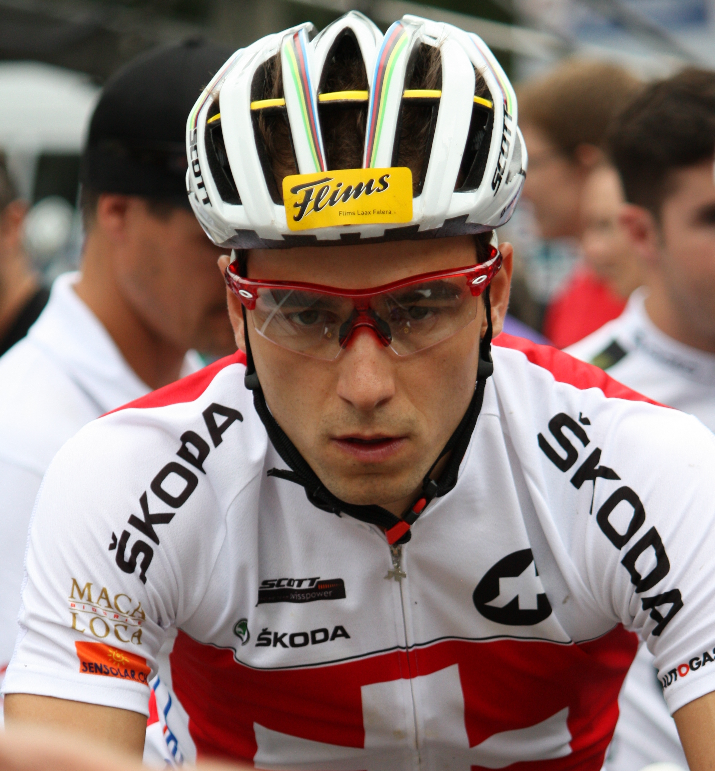 Nino Schurter at the World Championships in Champéry (CH) - 03.09.2011